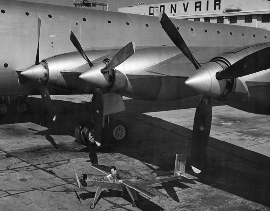 The Beecraft Wee Bee, compared to the Convair XC-99 transport.